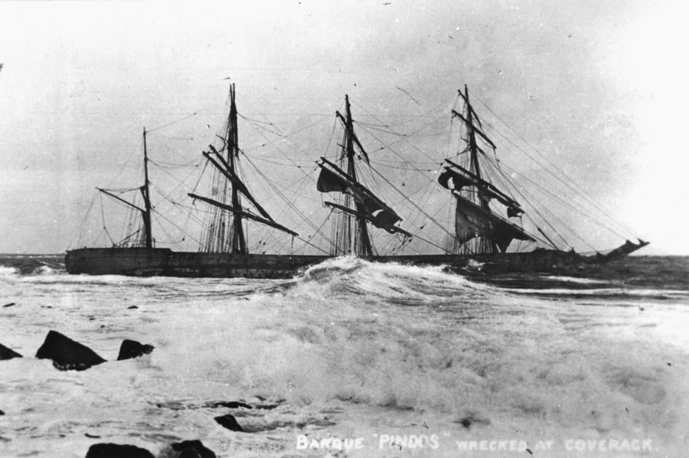 Pindos (ship) Wrecked at Coverack in Cornwall, England. (Description supplied with photograph).